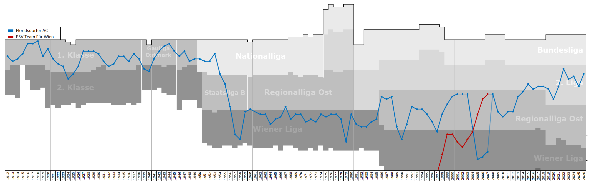 Chart of end-season table positions of Floridsdorfer AC in the Austrian football league system. Data source: RSSSF, , regiowiki.at, wfv.at, wikipedia